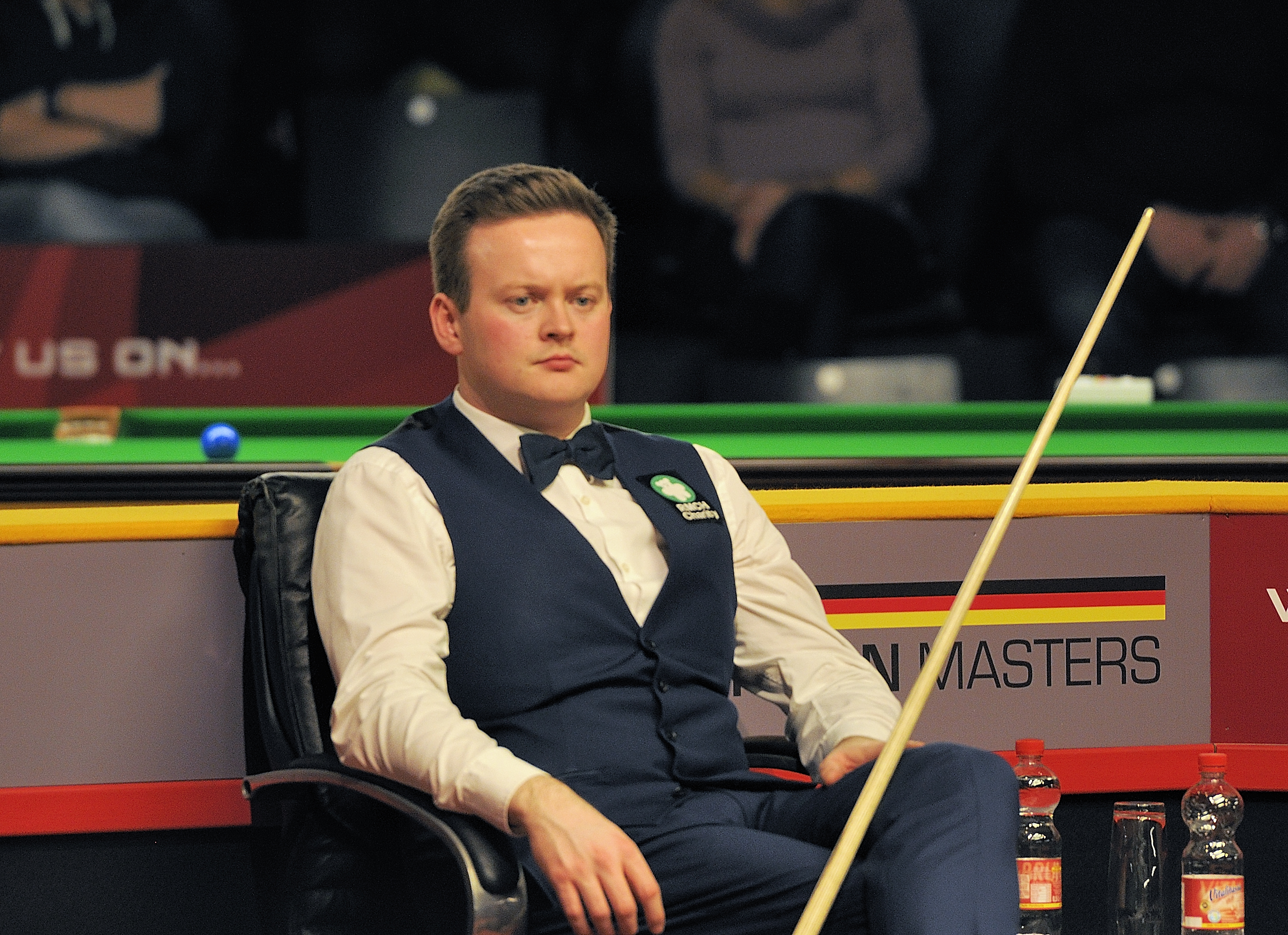 Picture taken in Berlin during the Snooker German Masters in 2014. Shaun Murphy.